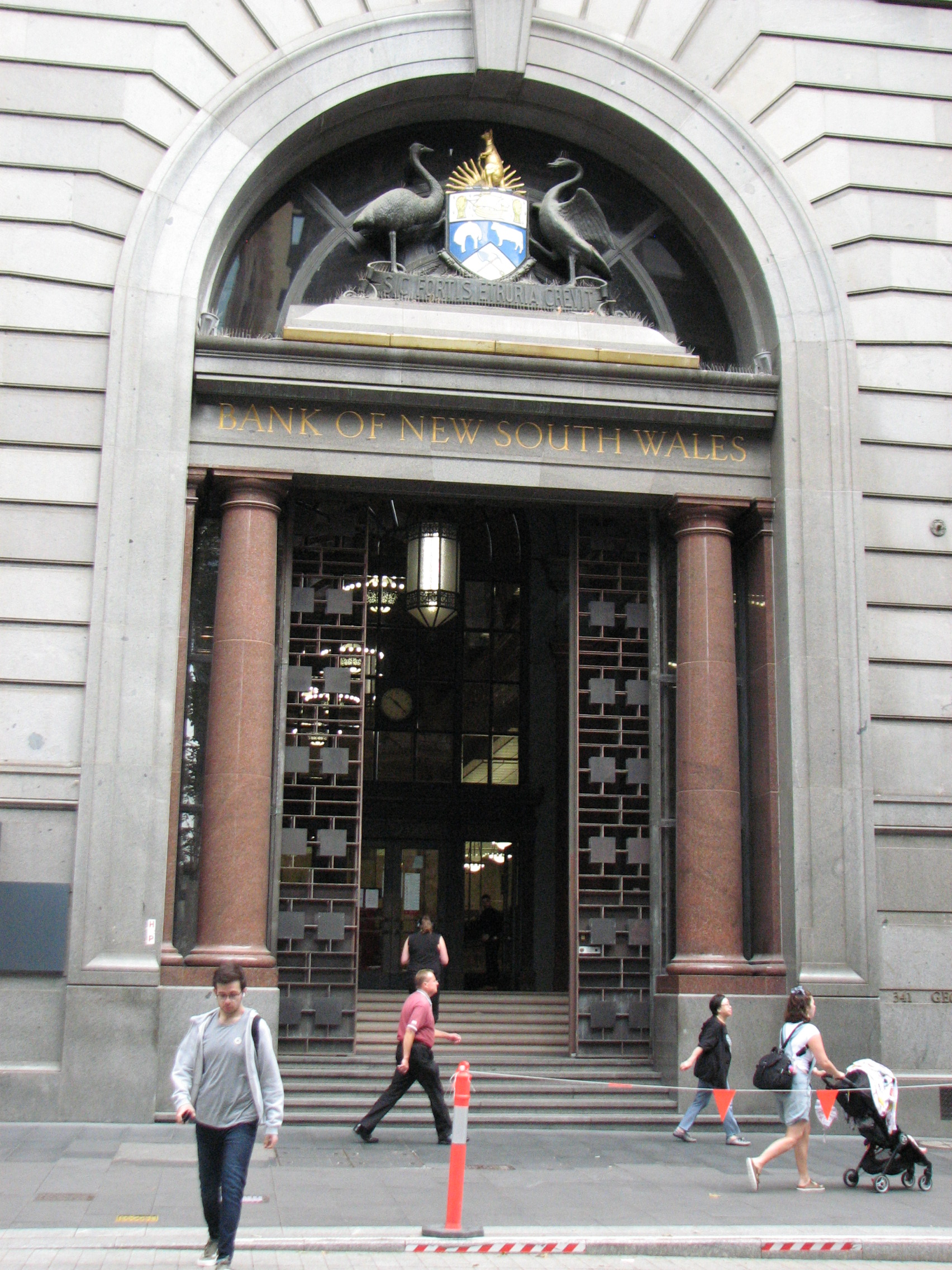 341 George Street, Sydney is a heritage-listed former Bank of New South Wales/Westpac bank building